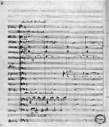 This image was copied from en. The original description was: This is a scan of a page of a musical manuscript from the 1880's by Gabriel Fauré. In paradisum, Ms. 413, Bibliothèque Nationale, Paris.